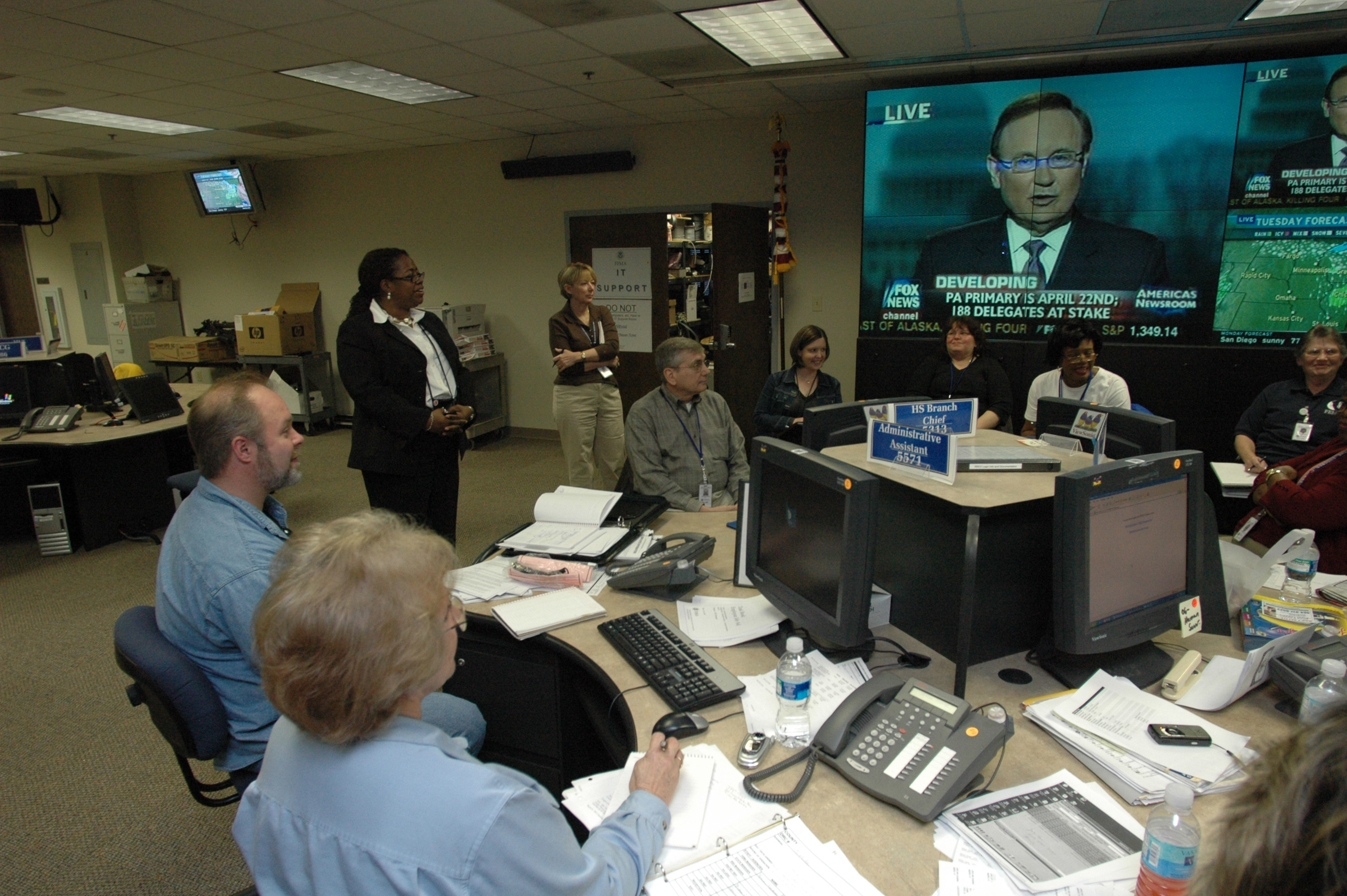 Atlanta, GA, March 24, 2008 -- Federal Emergency Management Agency (FEMA) staff meeting FEMA's Regional Office. FEMA employees gather in Atlanta to help deal with the damage caused by a tornado which hit the city center. FEMA provides help to individuals, businesses, and local government in the recovery effort. Leif Skoogfors/FEMA